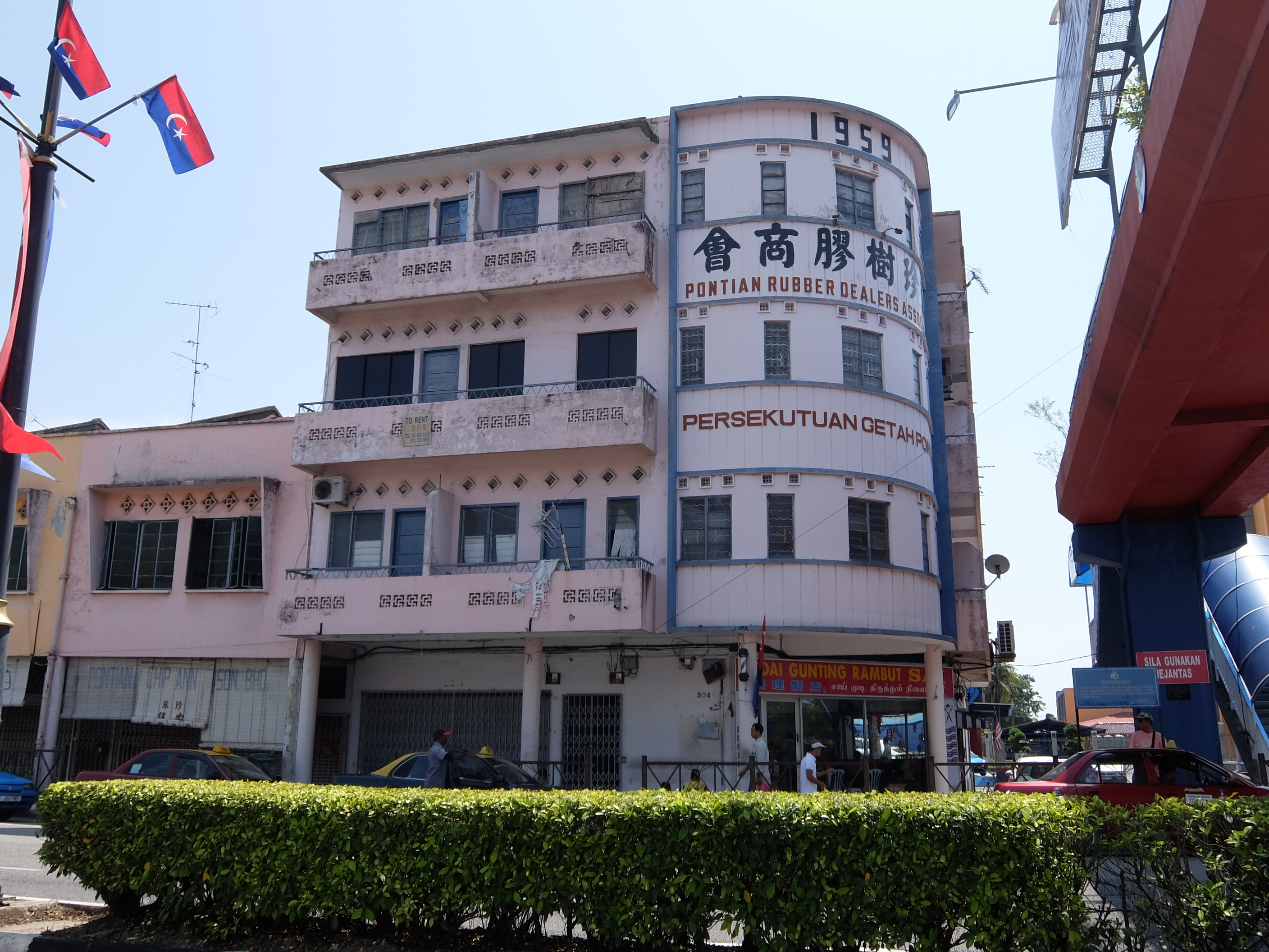 Pontian Rubber Dealers Association, Pontian Kechil, Pontian, Johor, Malaysia